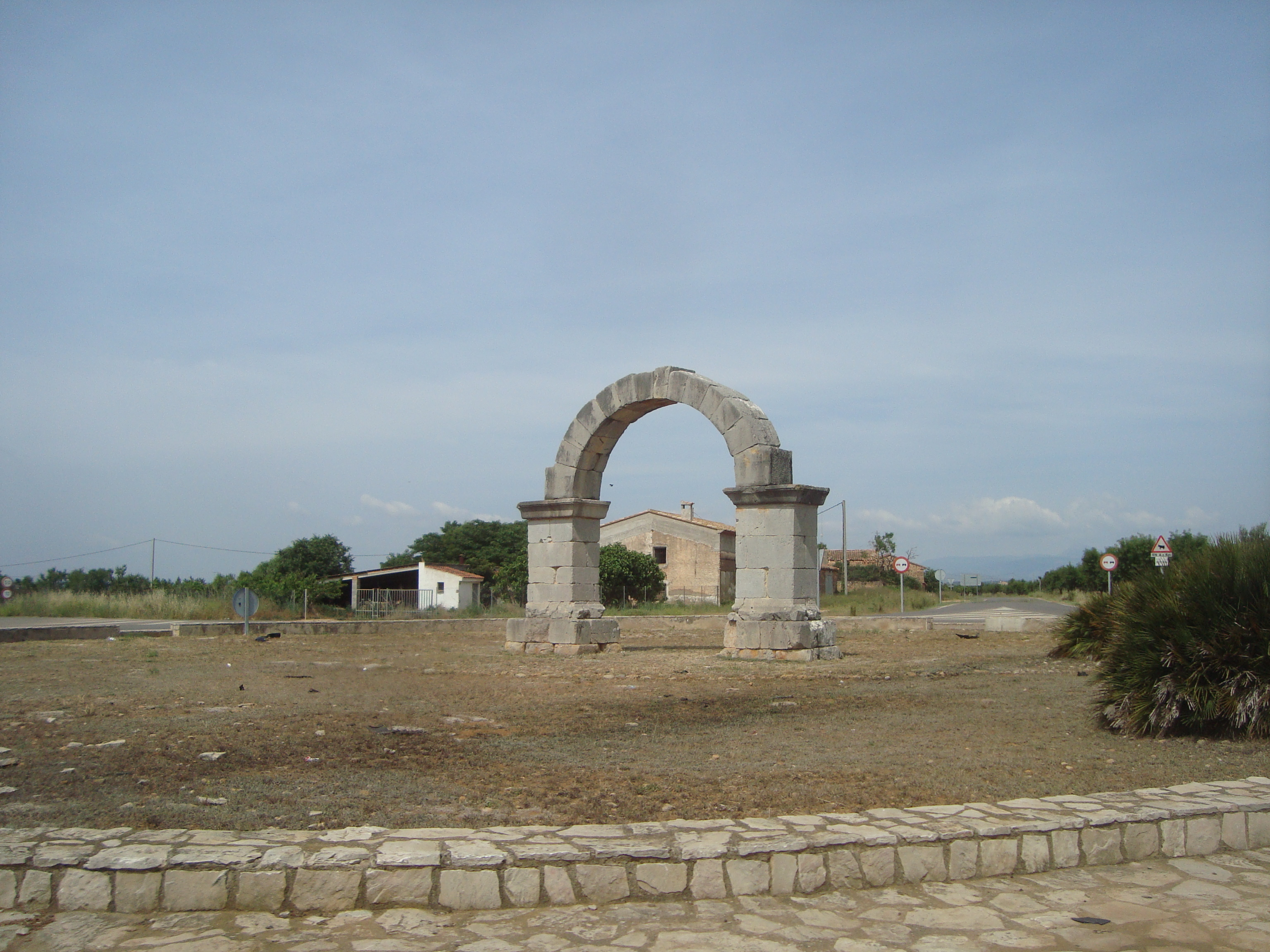 Roman Arch of Cabanes (Castellón)